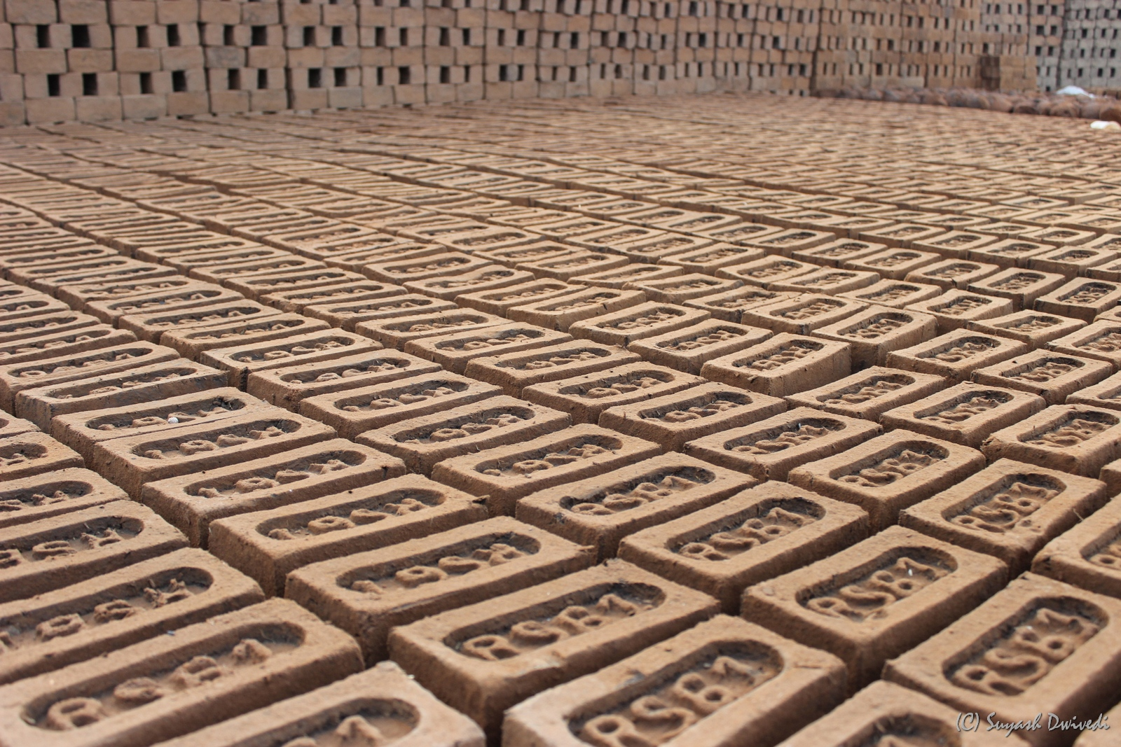 Raw Indian brick